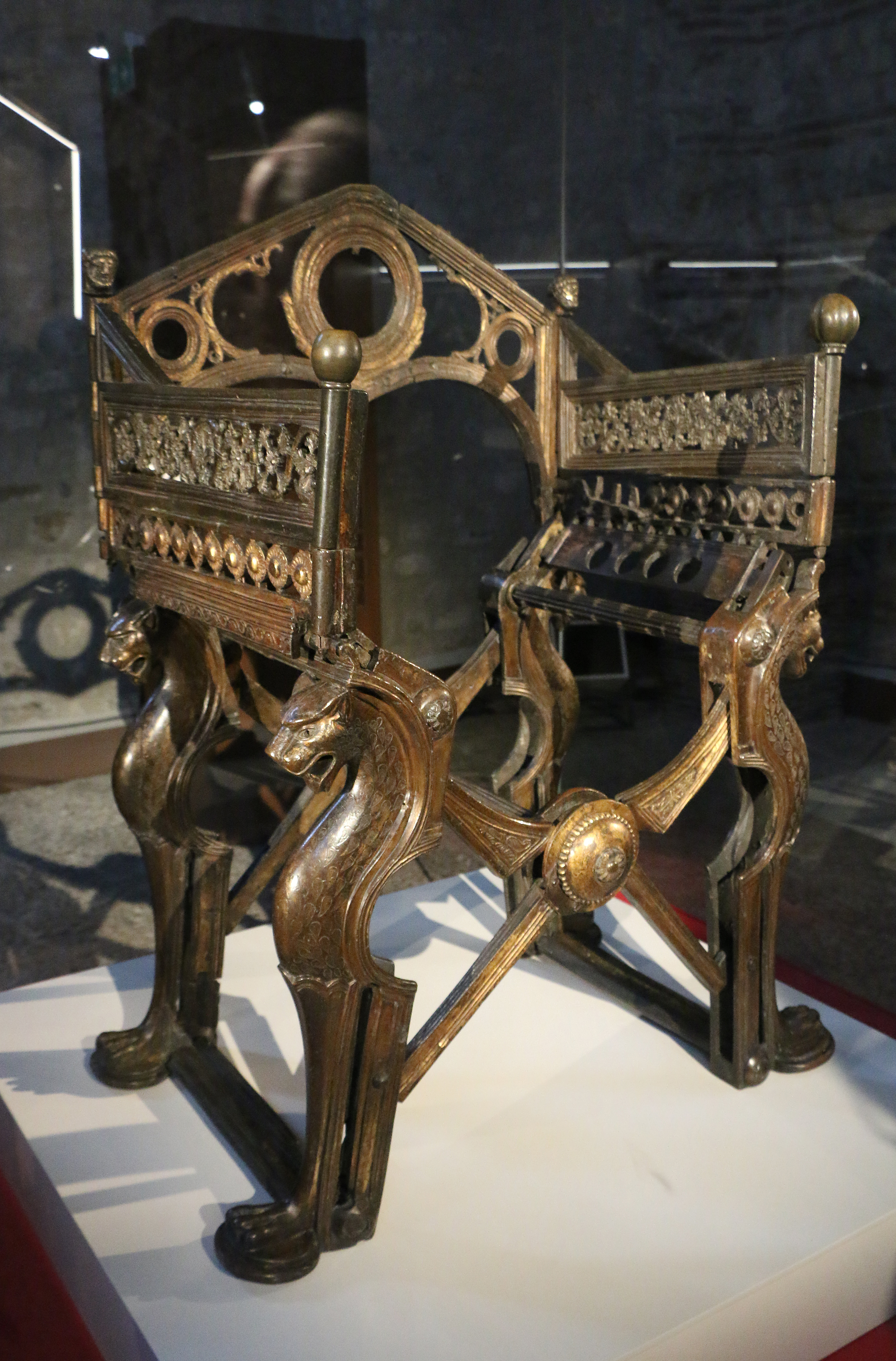 the Throne of Dagobert (Dagobert's chair) - usually at Cabinet des Médailles of National Library of France